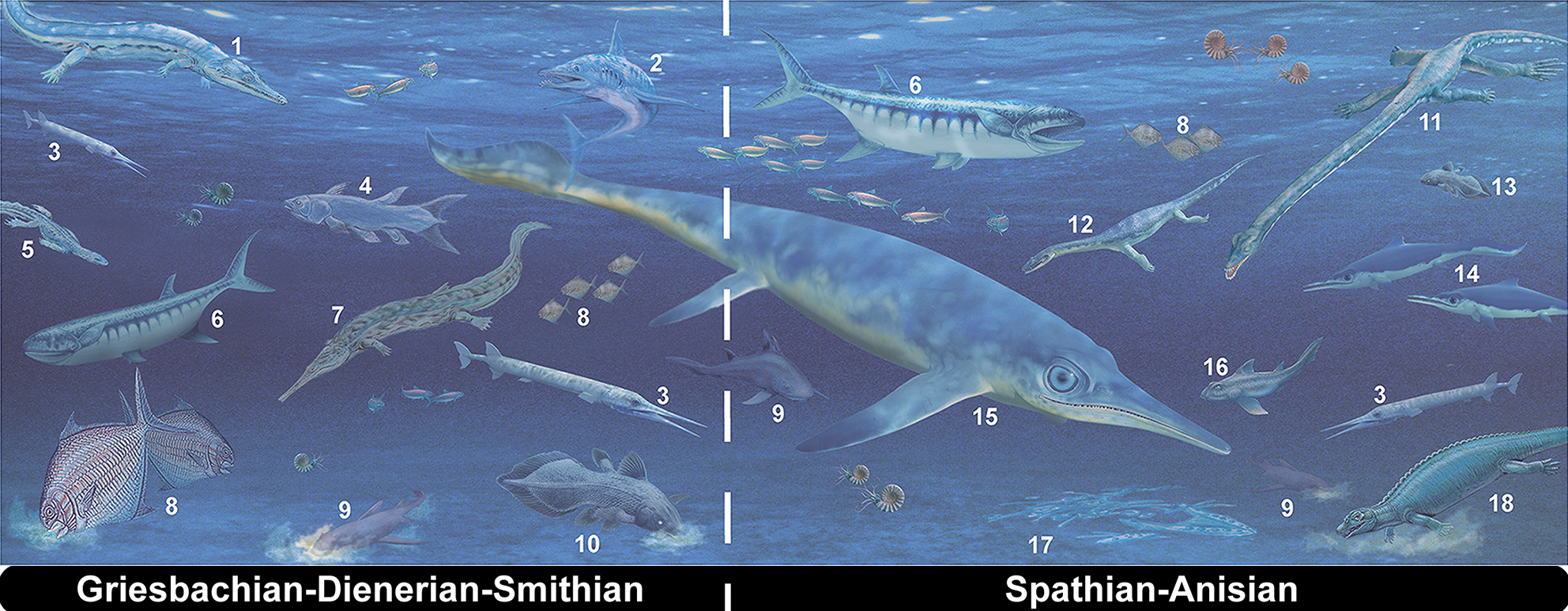 Early Triassic marine vertebrate apex predators during the Griesbachian to Smithian interval (left) and the Spathian to Anisian interval (right). Predators not exactly to scale; see text and Tables S1–S2 for details on body size and stratigraphic occurrence. Marine vertebrate apex predators: 1, Wantzosaurus (trematosaurid ‘amphibian’); 2, Fadenia (eugeneodontiform chondrichthyan); 3, Saurichthys (actinopterygian ambush predator); 4, Rebellatrix (fork-tailed actinistian); 5, Hovasaurus (‘younginiform’ diapsid reptile); 6, Birgeria (fast-swimming predatory actinopterygian); 7, Aphaneramma (trematosaurid ‘amphibian’); 8, Bobasatrania (durophagous actinopterygian); 9, hybodontoid chondrichthyan with durophagous (e.g. Acrodus, Palaeobates) or tearing-type dentition (e.g. Hybodus); 10, e.g., Mylacanthus (durophagous actinistian); 11, Tanystropheus (protorosaurian reptile); 12, Corosaurus (sauropterygian reptile); 13, e.g., Ticinepomis (actinistian); 14, Mixosaurus (small ichthyosaur); 15, large cymbospondylid/shastasaurid ichthyosaur; 16, neoselachian chondrichthyan; 17, Omphalosaurus skeleton (possible durophagous ichthyosaur); 18, Placodus (durophagous sauropterygian reptile).